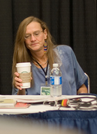 Diana Schutz, cropped from an image of Dylan Williams, Brett Warnock and Diana Schutz during the How to Put Together a Comics Anthology panel at the Stumptown Comics Fest 2006.